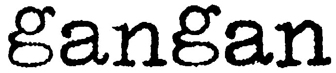 Original Gangan logo: Scan of a typewriter with jumping "g", 1984-1994.